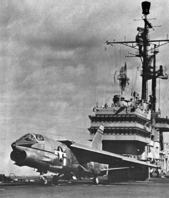 A U.S. Navy Vought F8U-1 Crusader piloted by Cdr. R.W. Windsor during carrier trials aboard the U.S. aircraft carrier USS Forrestal (CVA-59) in April 1956. The first Crusader flew on 25 March 1955.